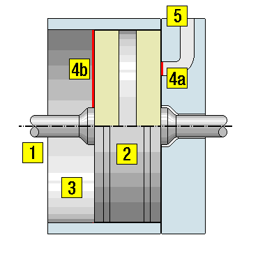 Cylinder